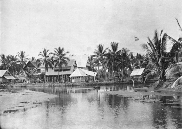 House of the regent at Lamata